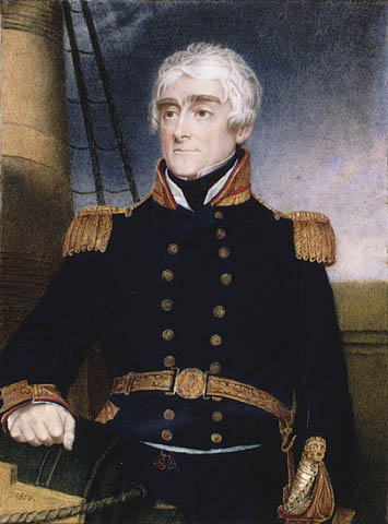 Sir Charles Ogle, 2nd Baronet (1775-1858) entered the British Navy in 1787 and was Commander-in-Chief in North America from 1827 to 1830, and then Portsmouth from 1845 to 1858. He was made Vice-Admiral in 1830, Admiral in 1841 and Admiral of the Fleet in 1857. There is one other known miniature of him by Cornelius Durham dated 1846 that is almost identical to this portrait. / Charles Ogle (1775-1858) s'engagea dans la marine britannique en 1787 et fut commandant en chef en Amérique du Nord de 1827 à 1830, puis à Portsmouth de 1845 à 1858. Il fut nommé vice-amiral en 1830, amiral en 1841 et amiral de la flotte en 1857.